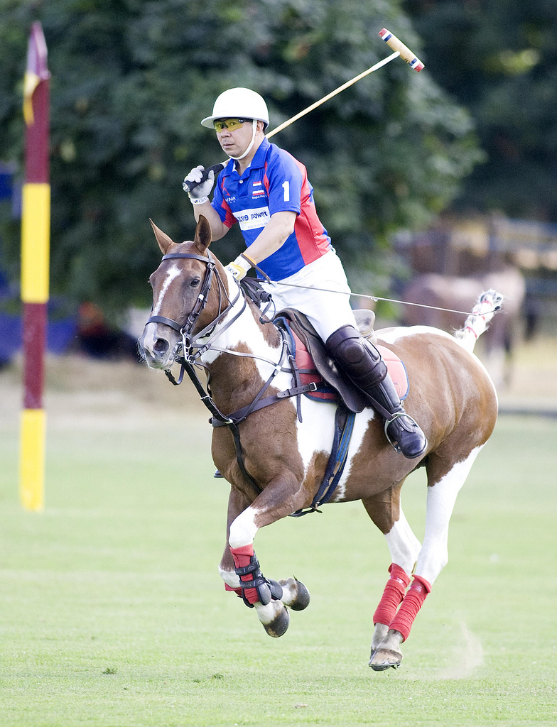 Vichai Raksriaksorn playing polo at Ham Polo Club in the London vs Bangkok match 2010